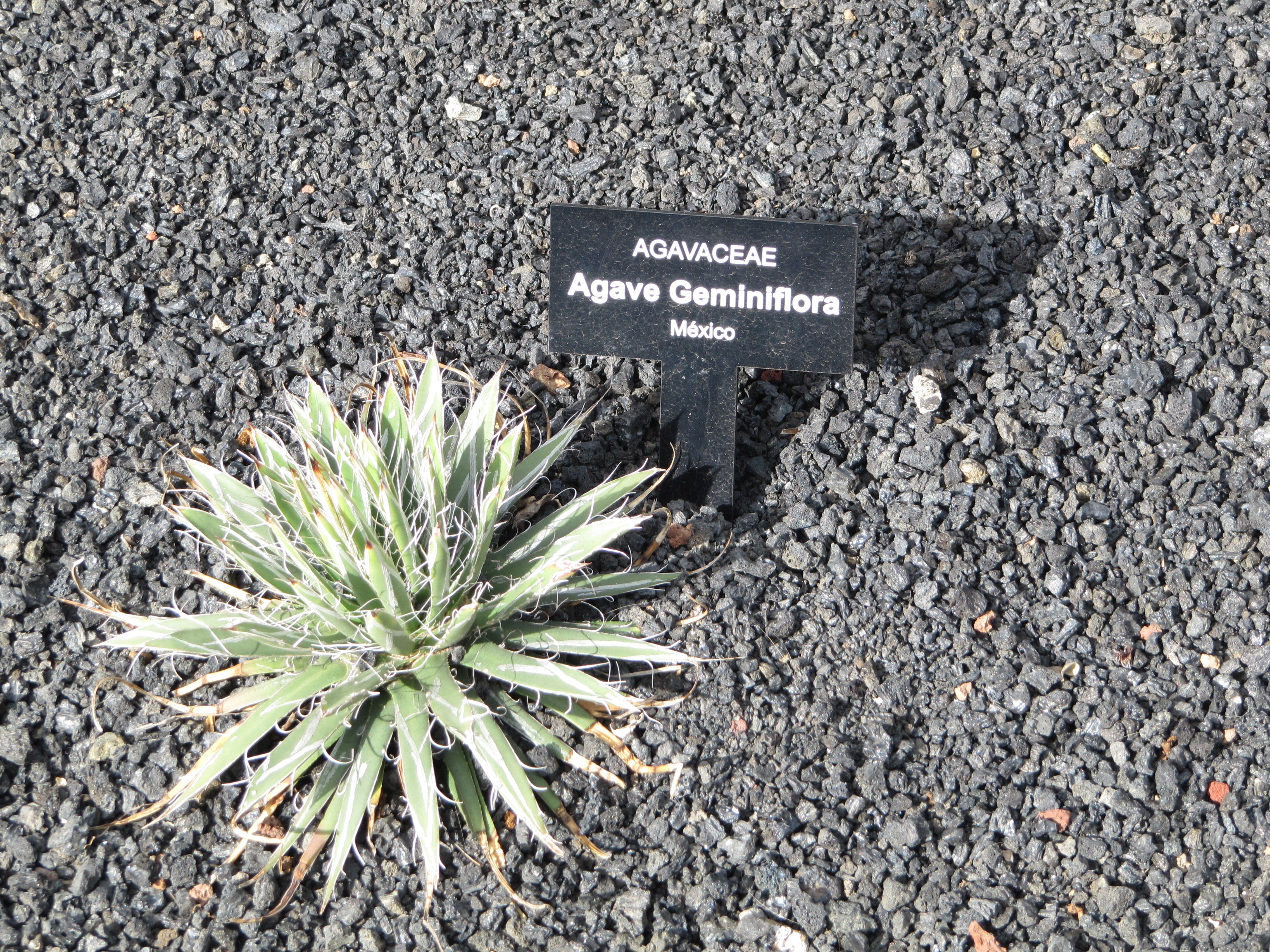 Agave geminiflora